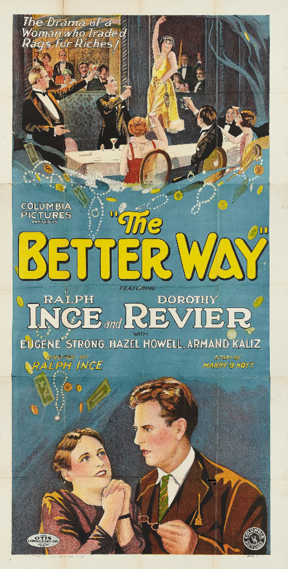 Poster for the American romantic comedy film The Better Way (1926).